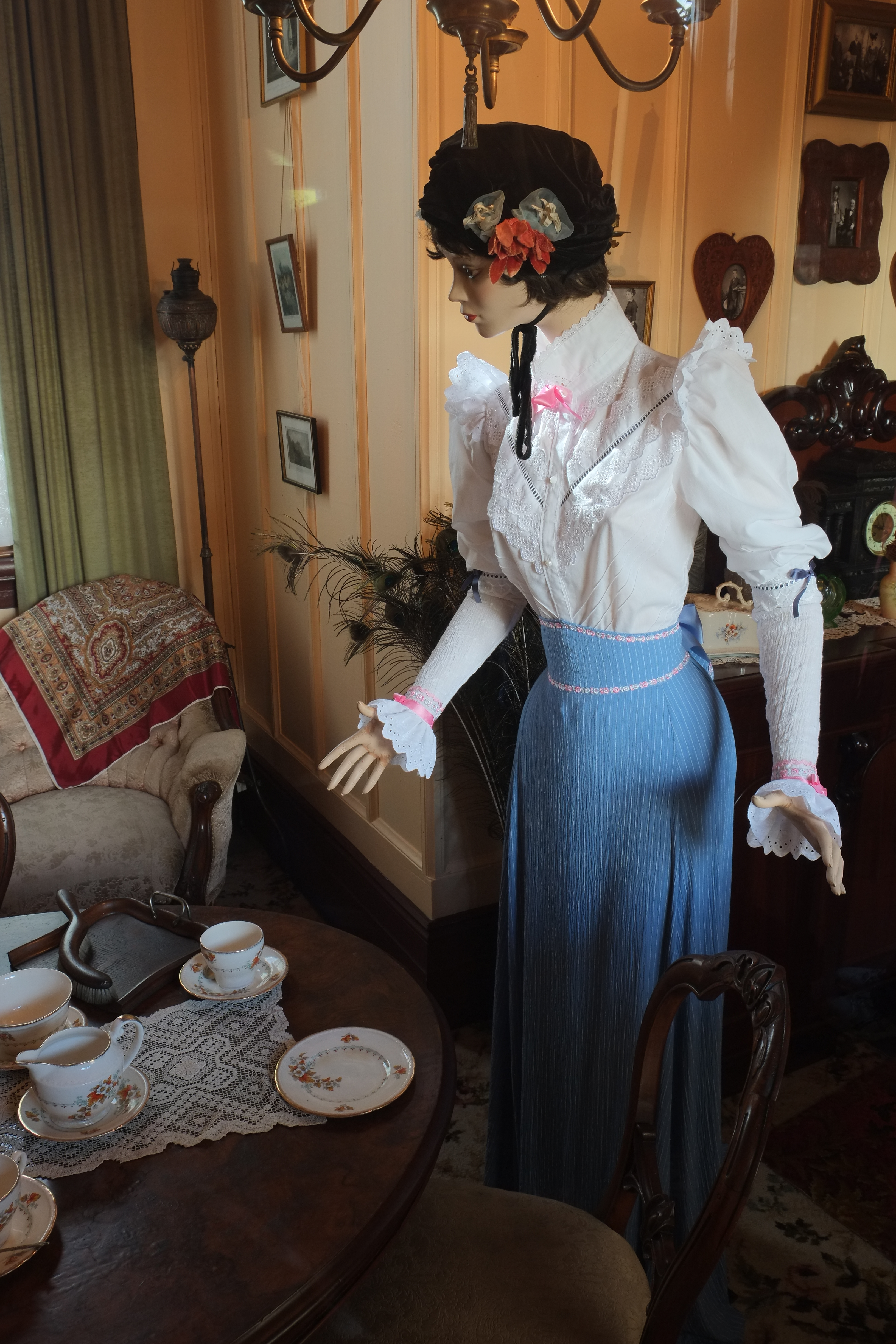 Antique decorations inside historic building in Shantytown